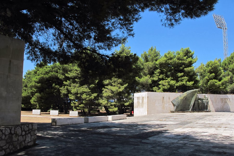 Šubićevac Memorial Park, Šibenik.